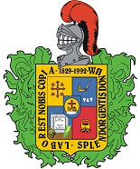 Coat of arms of San Francisco de los Romo, AGS